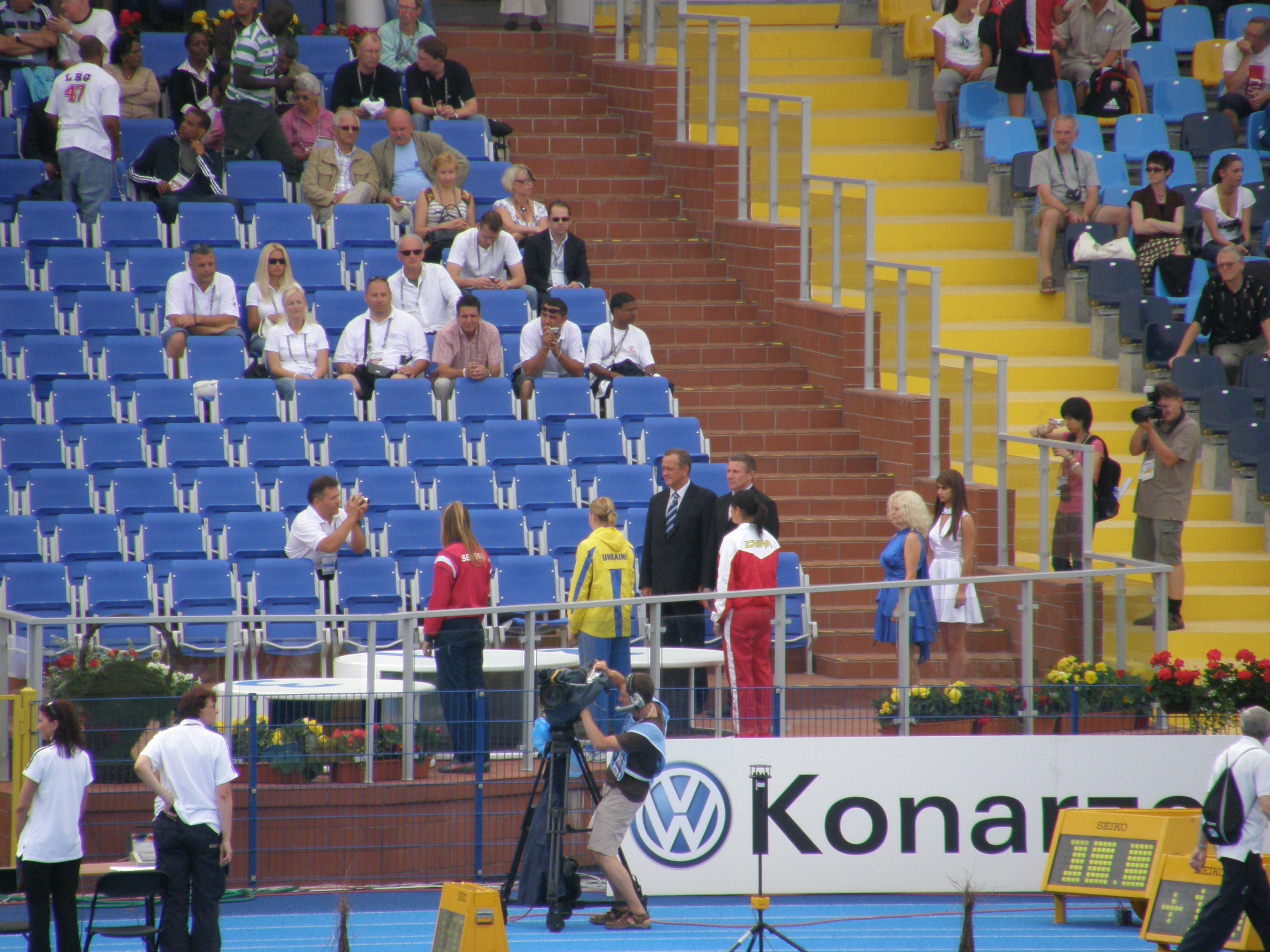 2008 IAAF World Junior Championships - victory ceremony (Women's Javelin Throw)